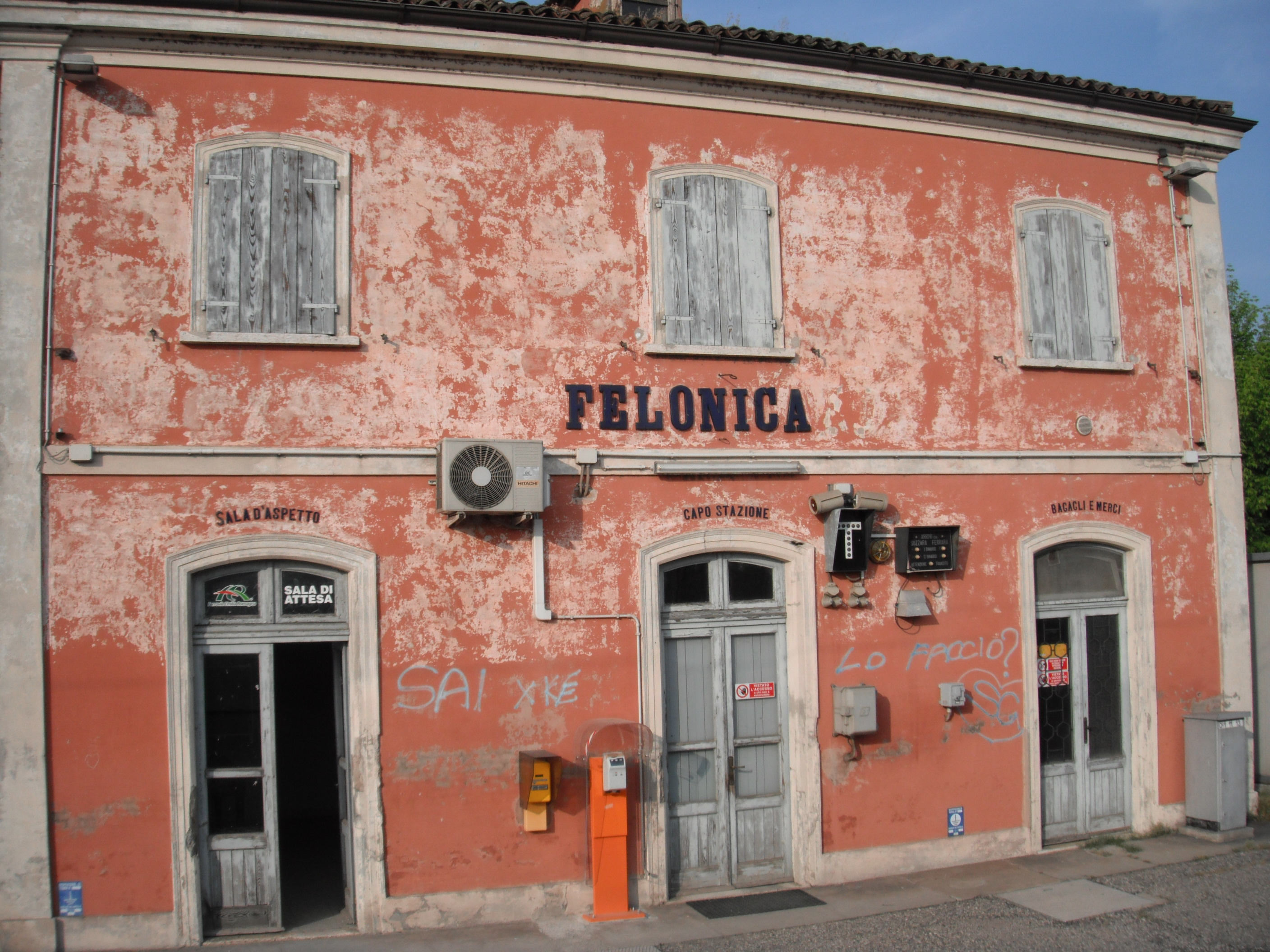 Felonica train station, Mantua province, Italy